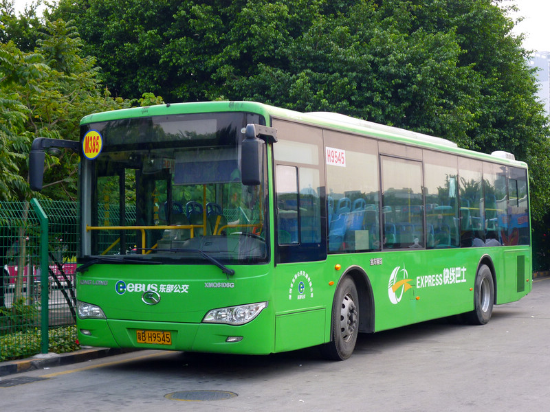 Shenzhen Bus Route-M385(former K354)-XMQ6106G-Express version